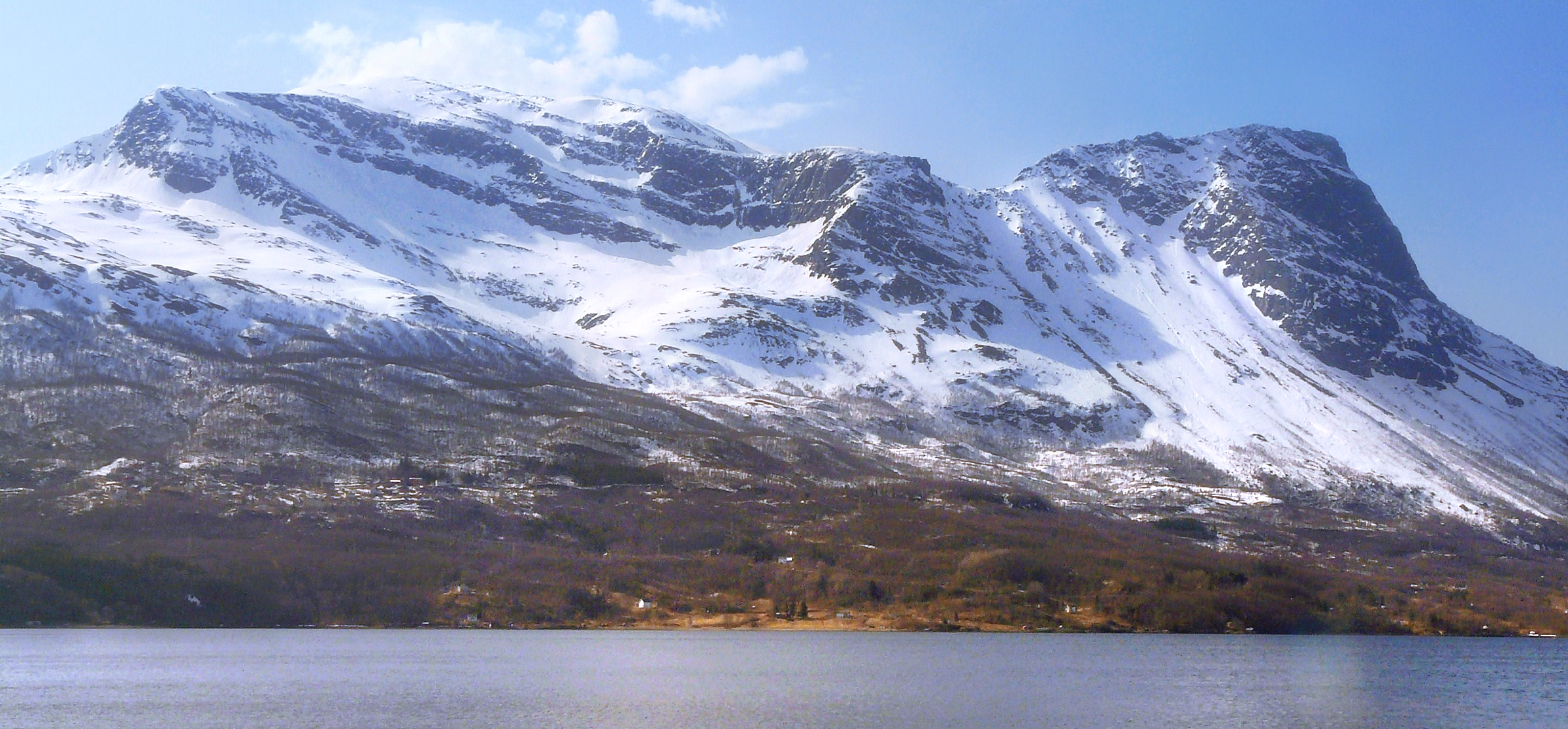 The Tøtta mountain massif above Rombaken as seen from Langstranda in 2009 May. Rombakstøtta (1,230 m) on the right in the picture. Njeknanjunni upland begins from Rombakstøtta to the left and stretches further behind the visible hillside.